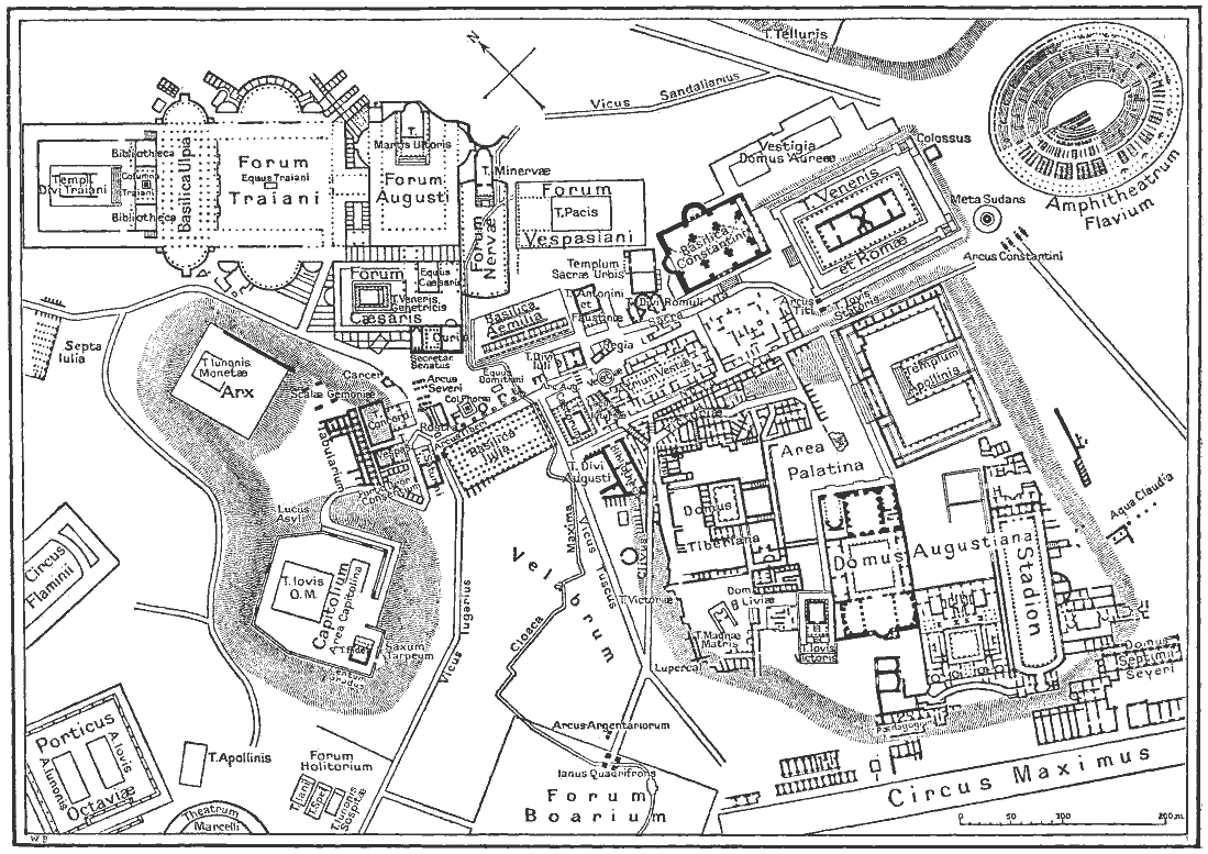 Map of antique downtown Rome, drawing.